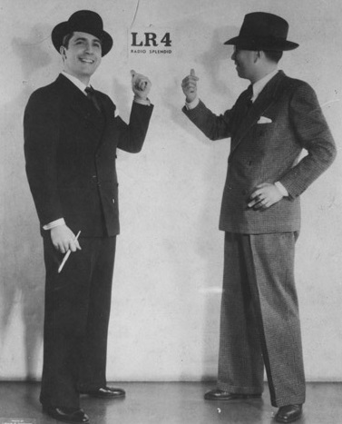 Carlos Gardel y Adolfo R. Avilés